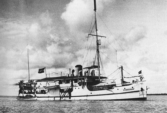 Dutch minelayer Bangkalan as survey ship Hydrograaf.